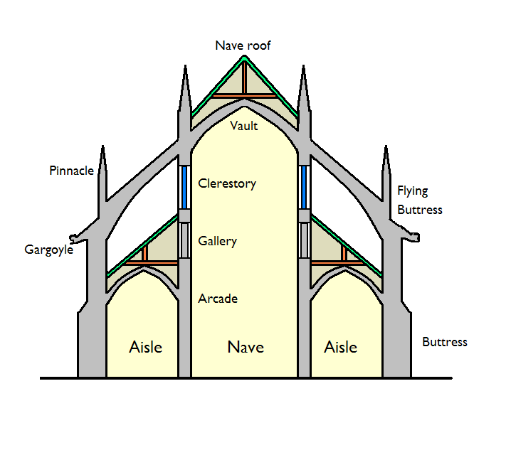 Gothic Cathedral, section with architectural labels